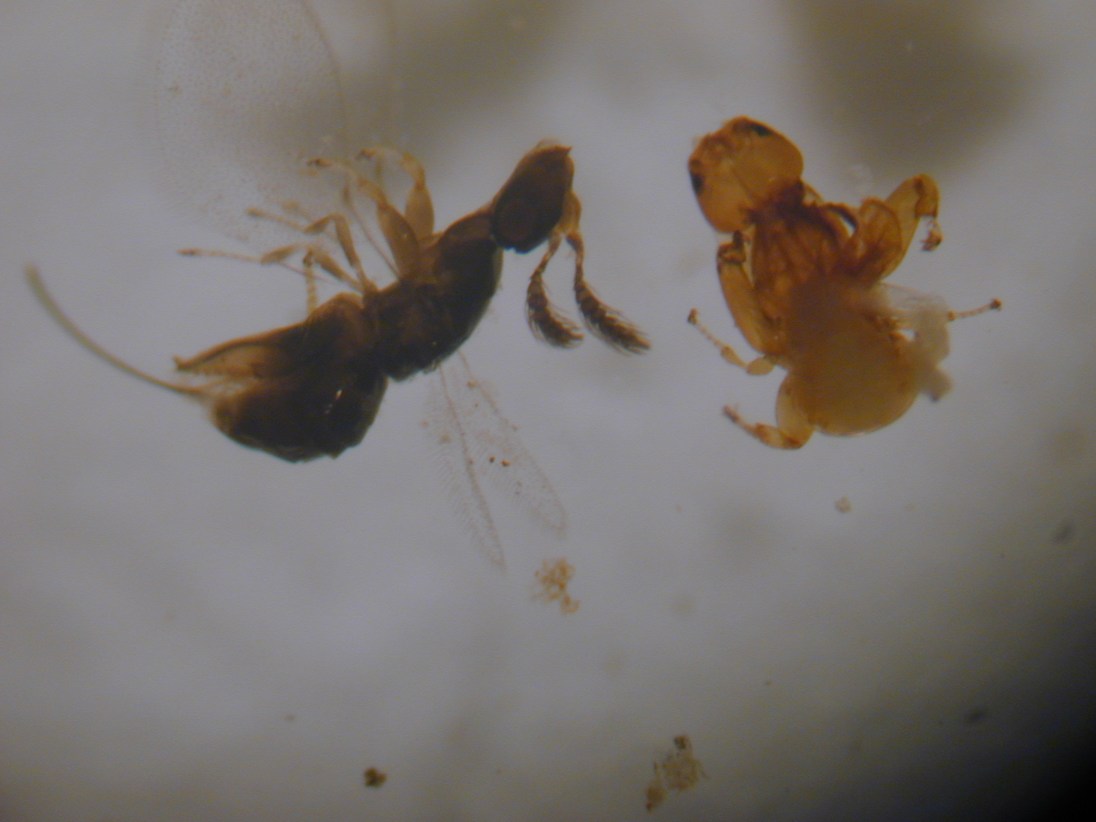 Ficus microcarpa (Agaonidae Parapristina verticillata male and female 000928 33 ex fruit). Location: Maui, Hamakuapoko